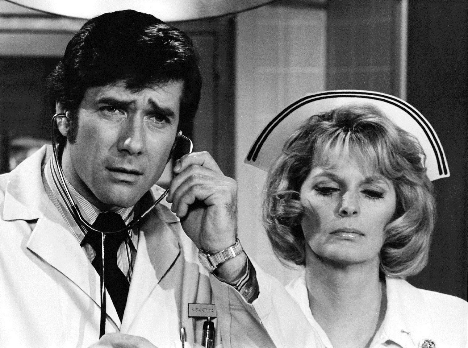 Photo of Robert Fuller as Dr. Kelly Brackett and Julie London as Nurse Dixie McCall from the television series Emergency!.